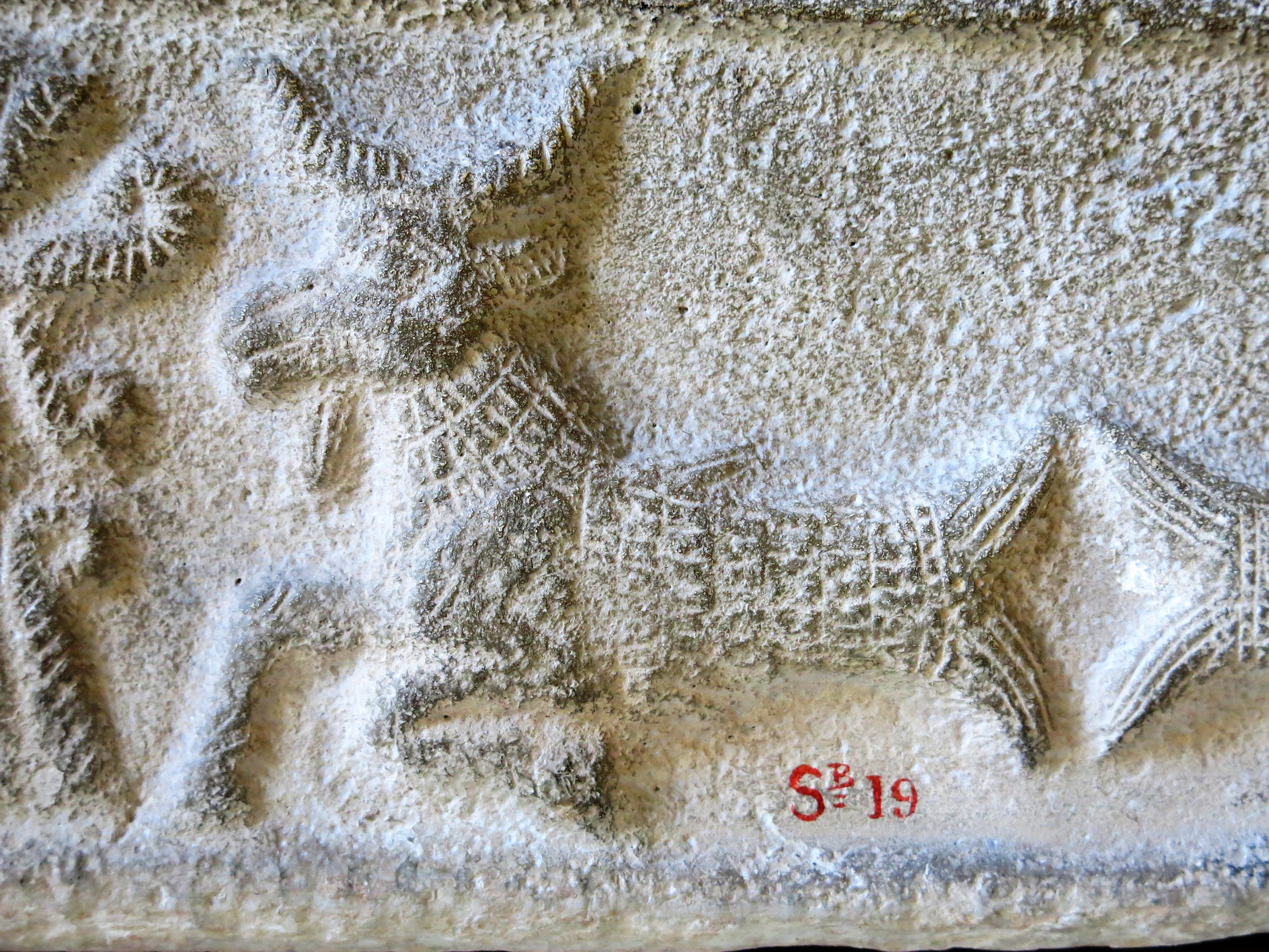 Detail of a fish-goat on the cultual bassin. (Louvre museum, Paris, France).